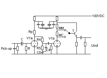 Tube RIAA Amplifier